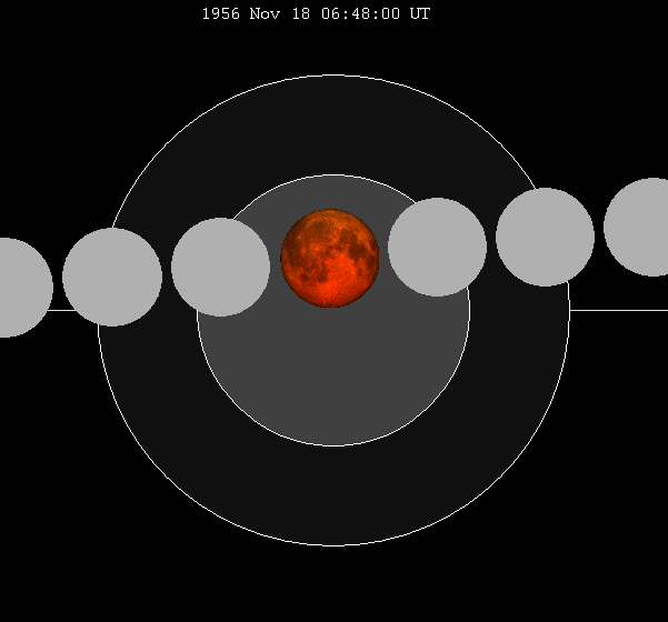 November 1956 lunar eclipse chart of moon's path through the earth's shadow. thumb